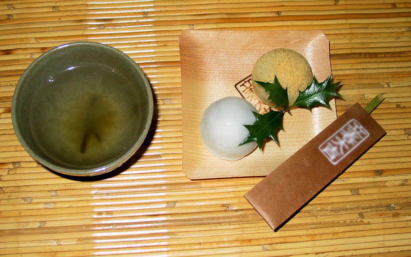 Tsuitachi-Mochi February limited version "Risshun Daikichi Mochi", Akafuku Ltd. is eaten in the Akafuku shop with Ume-kobu-tea, arranged leaves of Holly olive. 赤福の朔日餅（2月）立春大吉餅 店内で撮影、梅昆布茶と柊の葉が添えられている。